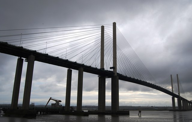 QE II Bridge - north pier